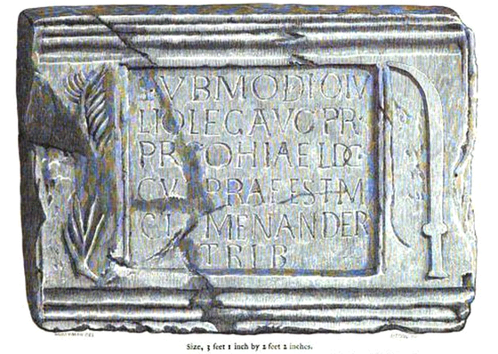 Dedication-slab Cohors I Aelia Dacorum, find 1852, outside the wall of the south guard-chamber of the main east gate of Birdoswald fort. The text is flanked on the left by a palm-branch, on the right by a curved Dacian sword (falx). Inscription: Under Modius Julius, emperor's propraetorian legate, the First Aelian Cohort of Dacians (built this) under the command of Marcus Claudius Menander, the tribune. RIB 1914.